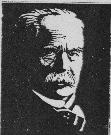 Friederich Trendelenburg, German physician and surgeon.